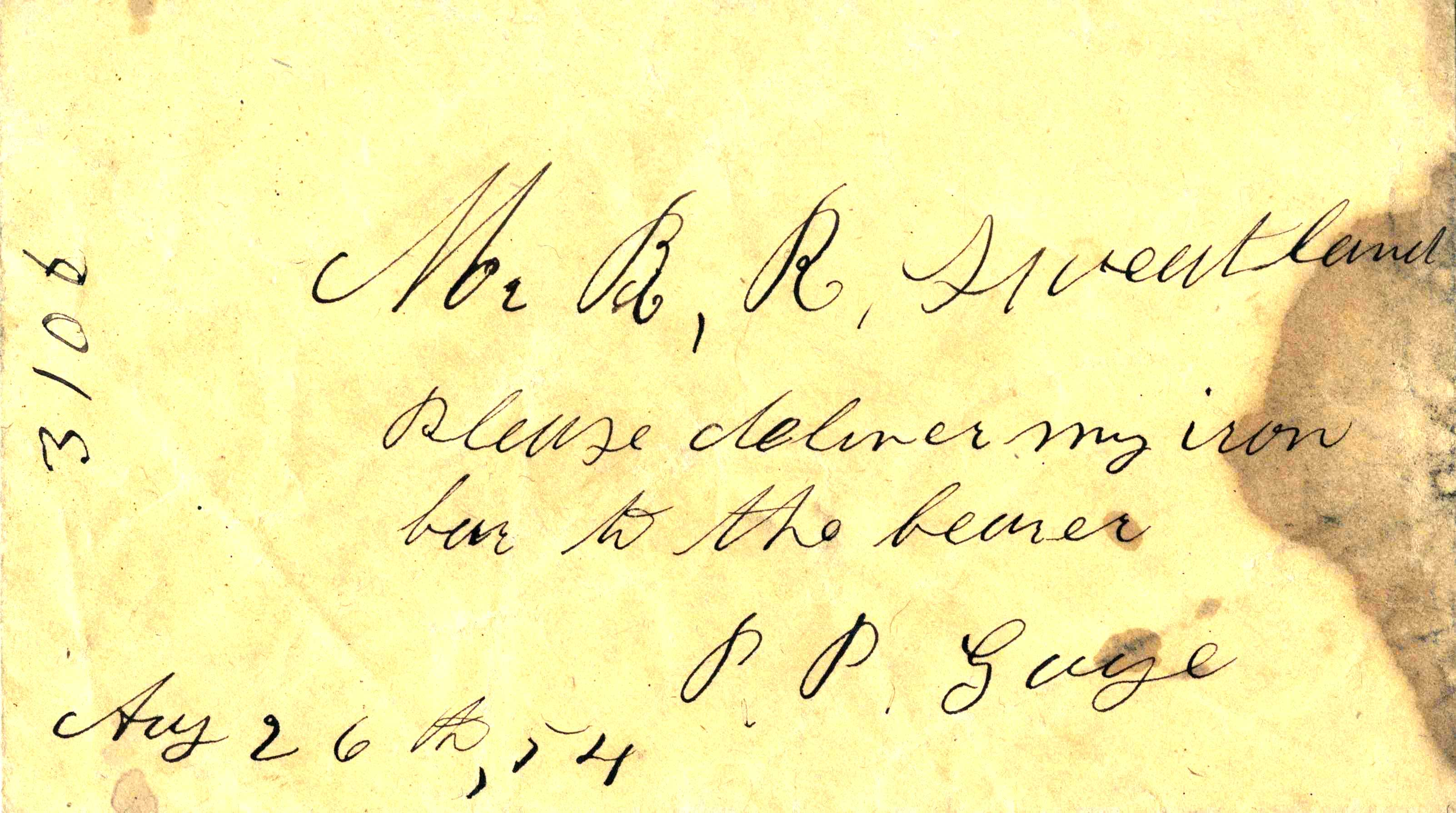 See other version